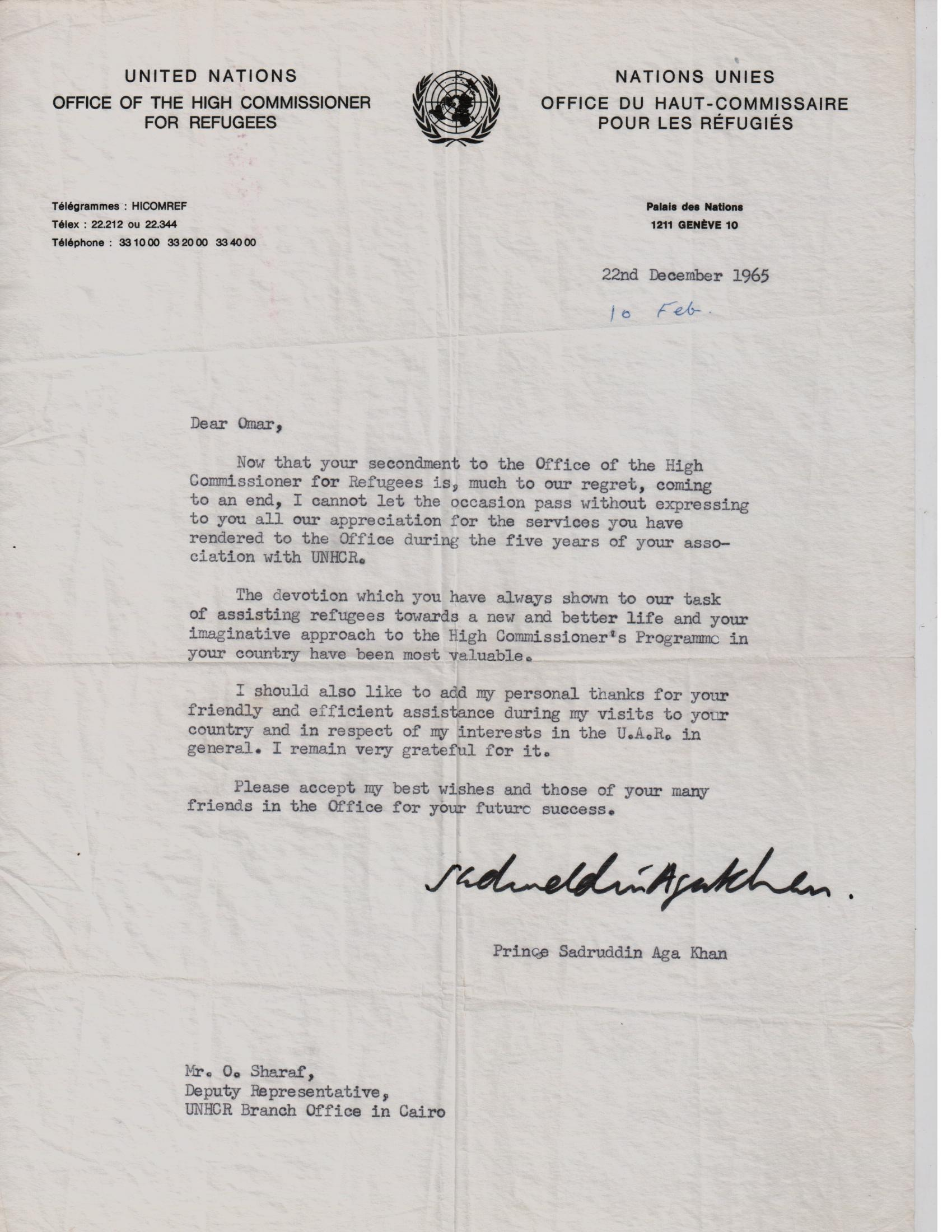 Letter from Prince Sadruddin Aga Khan addressed to Omar Sharaf, dated 22 December.1965